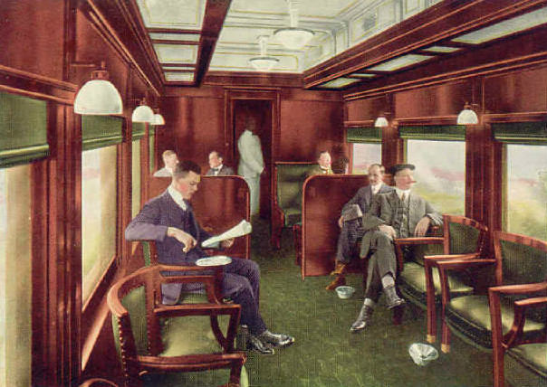 Postcard depiction of the club car of the Illinois Central Railroad's "Panama Limited" in 1917.